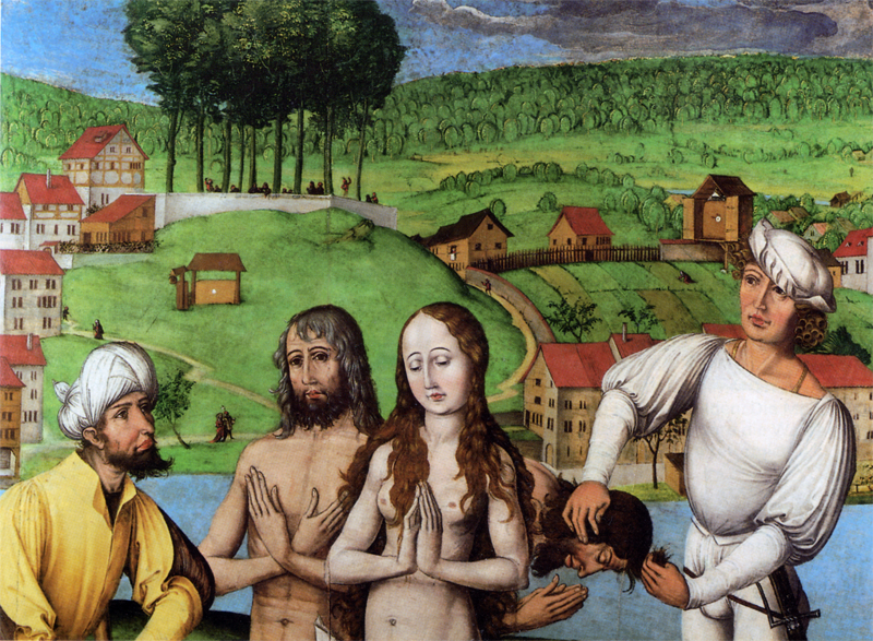 Detail of the remainings of the original altarpiece from the shrine of Felix and Regula in the Grossmünster showing the martyrdom in front of a panorama of the city of Zurich